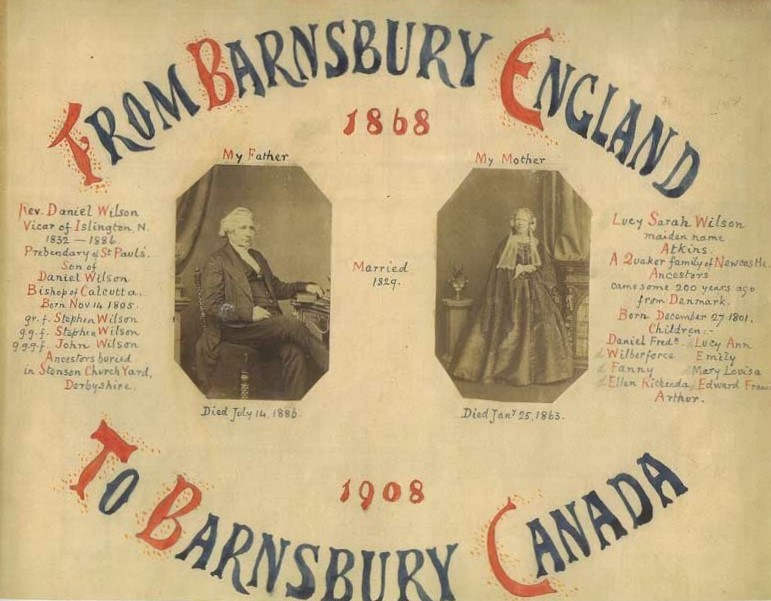 Picture Detailing Sarah Atkins Wilson's immediate family, drawn by her son, Edward Francis Wilson.